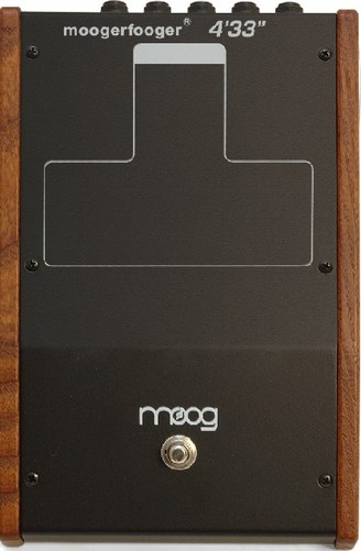 Moogerfoger 4'33" in recognition of John Cage